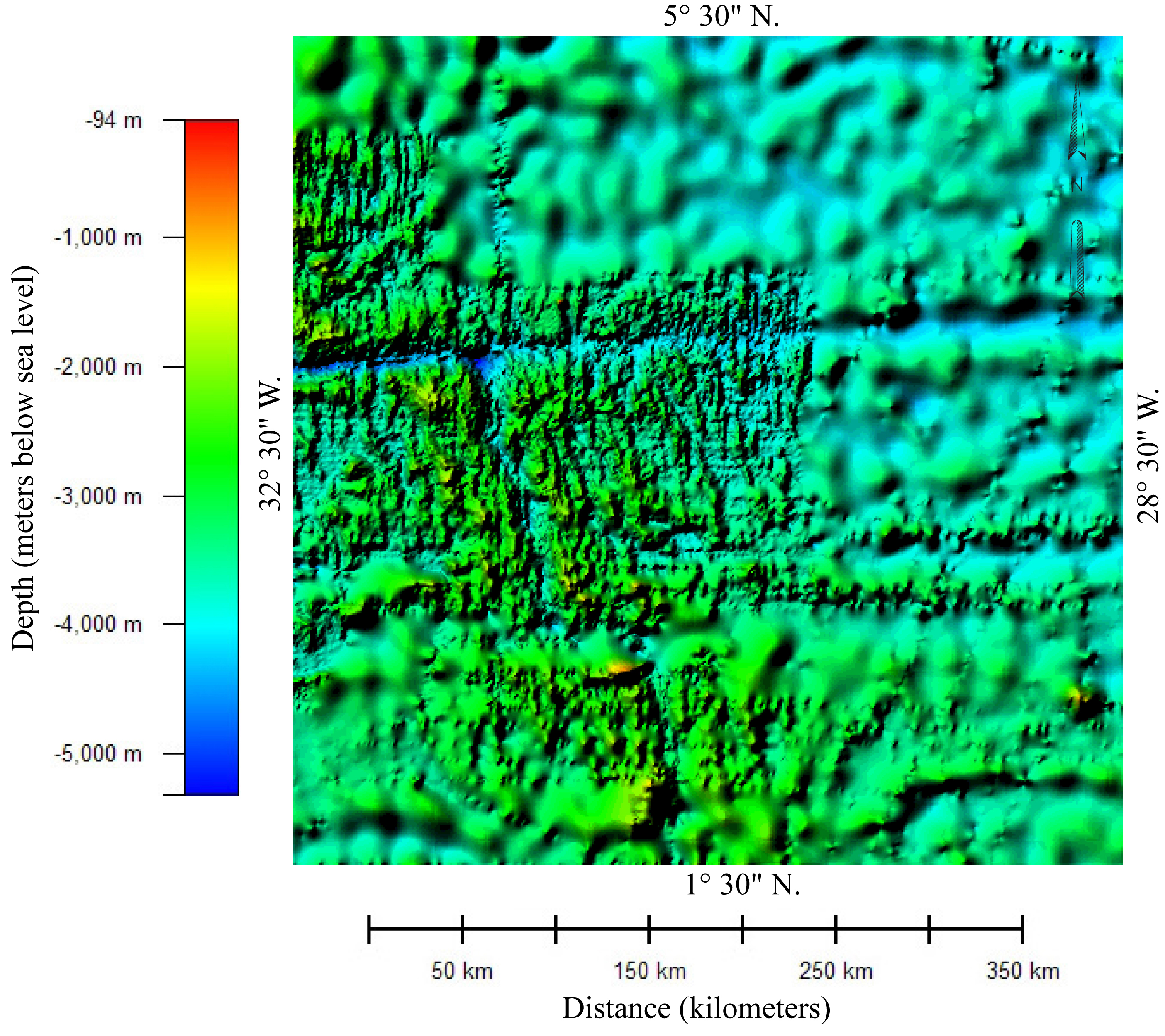 Color relief map of the bathymetry of the part of Atlantic Ocean in which Air France Flight 447 crashed. The image shows two different data sets with different resolution. The areas showing detailed bathymetry were mapped using multibeam bathmetry sonar. The areas showing very generalized bathmetry were mapped using high-density satellite altimetry. This image was prepared from General Bathymetric Chart of the Oceans (GEBCO) compiled by the British Oceanographic Centre. The 30 arc-second gridded bathymetric data was downloaded from "Gridded bathymetric data sets" at Image was prepared using Global Mapper 8.0 and Adobe Illustrator CS2.